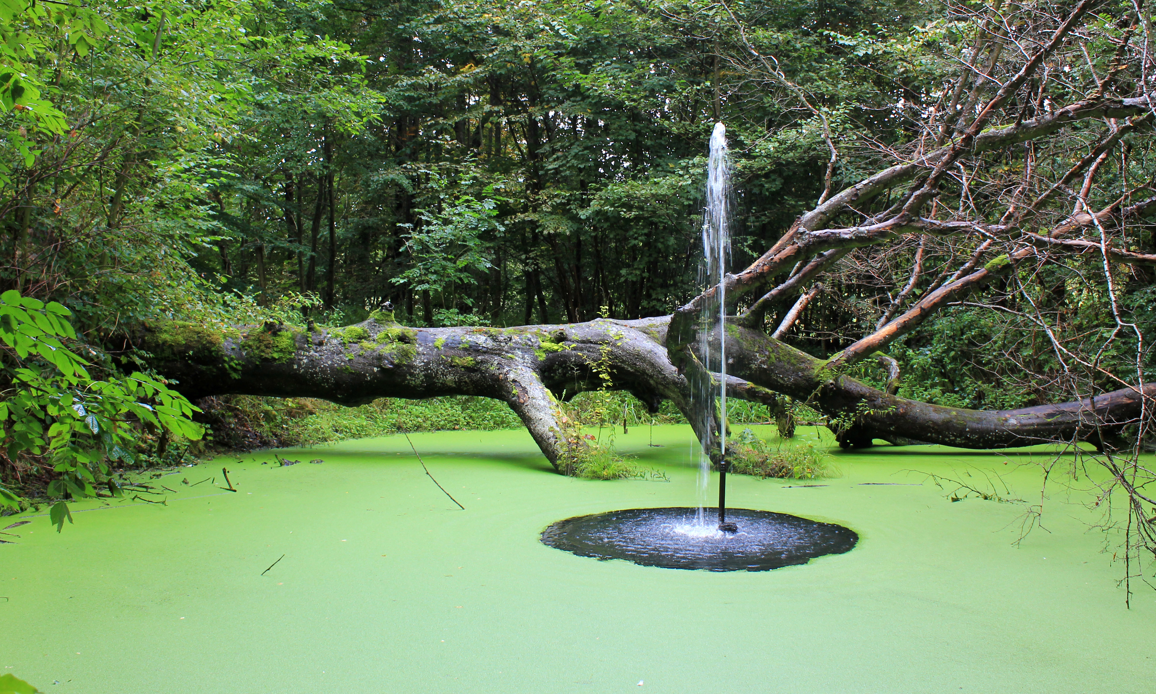 A fountain in a small lake in Christinero, a romantic garden facility created in the end of the 1700s by Christina Friederica von Holsteiner near Christiansfeld, Denmark.